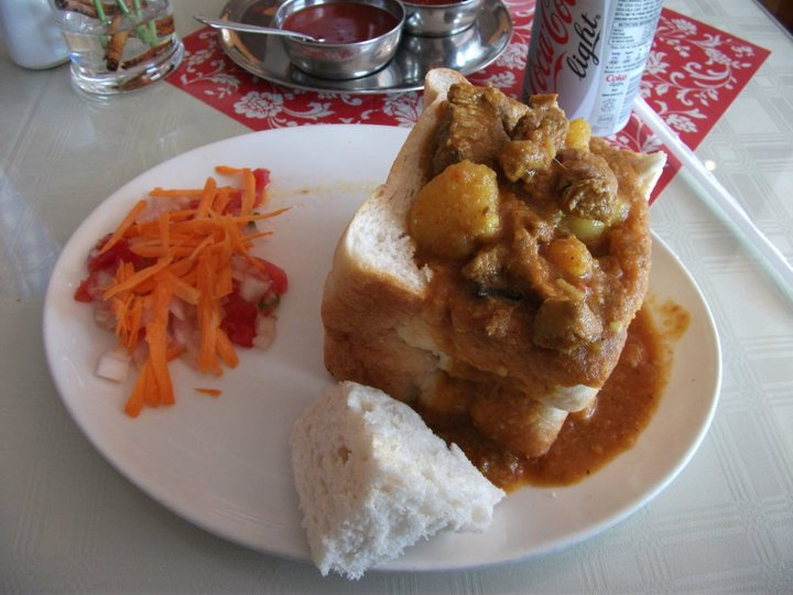 Photo of quarter mutton bunny chow at a restaurant in Durban, South Africa.